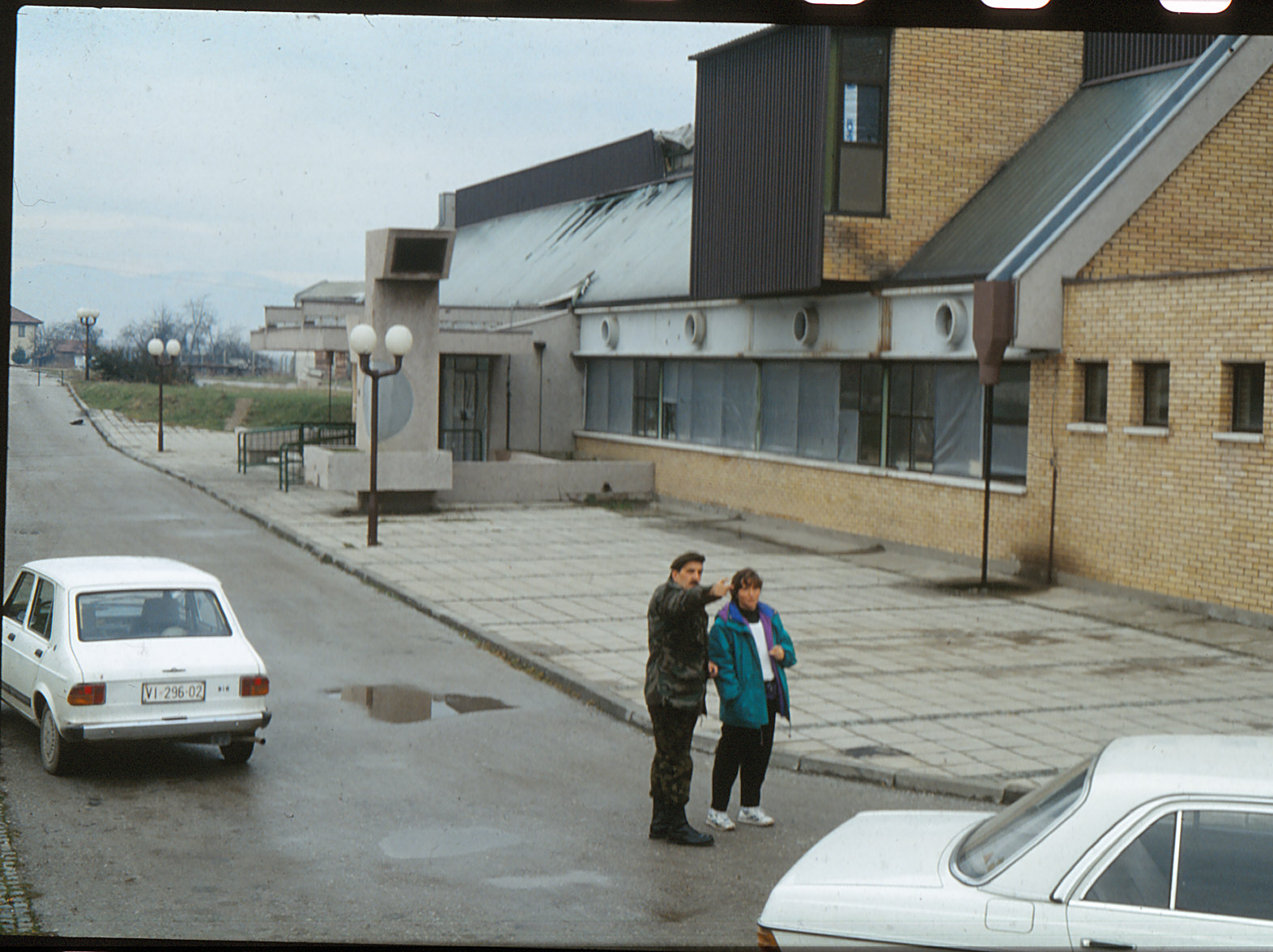 Pics from the first travel of Giovanni Zanchini to Visoko, Bosnia and Herzegovina, in 1992. Released under CC0 (Public Domain) within Osservatorio Balcani e Caucaso's "Cercavamo la pace" crowdsourcing project